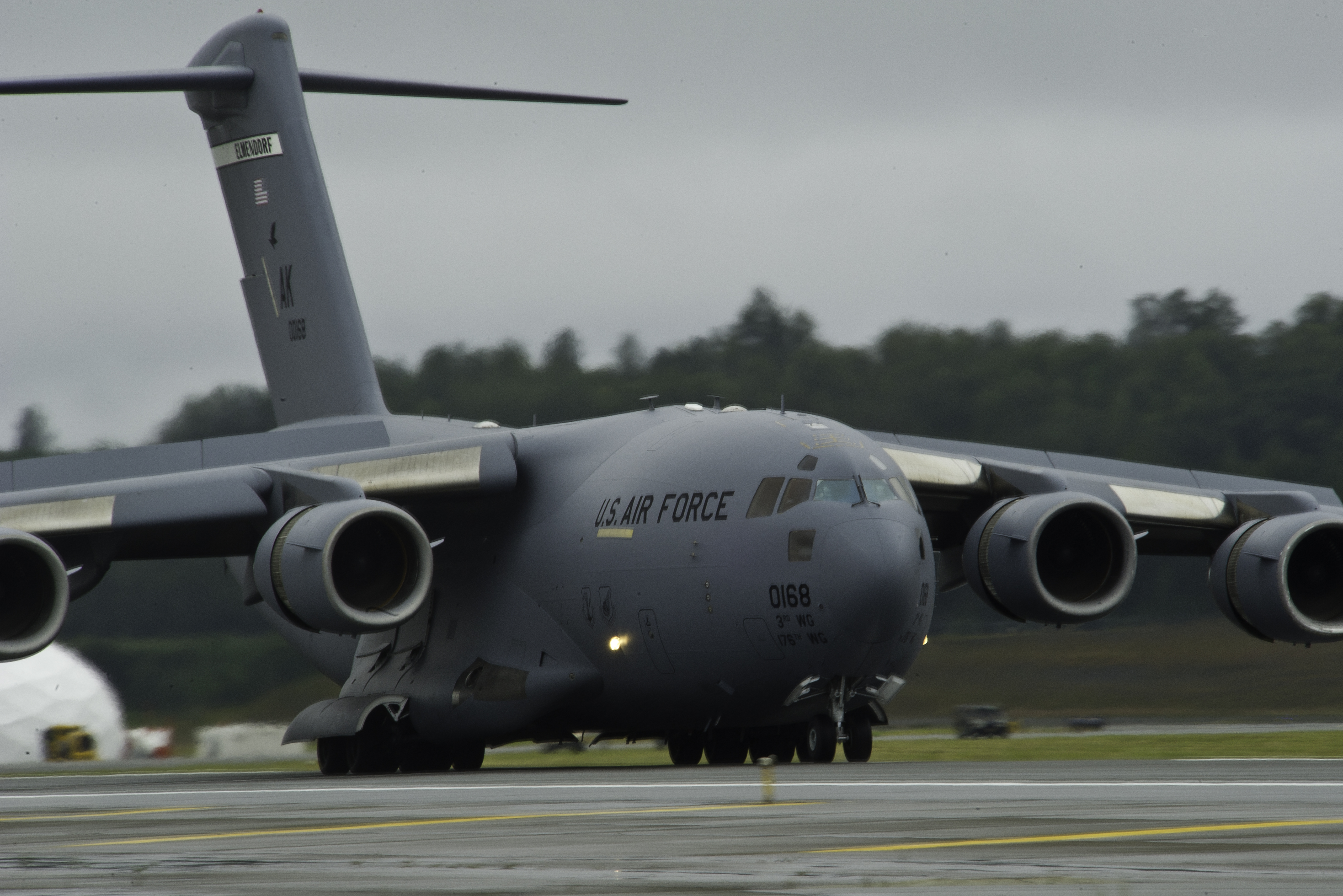 A U.S. Air Force C-17 Globemaster III cargo plane jointly operated by the 3rd Wing's 517th Airlift Squadron and an Alaska Air National Guard's 176th Airlift Squadron, lands after completing a training mission during the Arctic Thunder Open House July 25, 2014. Arctic Thunder Open House is a biennial event hosted by Joint Base Elmendorf-Richardson, Alaska. Featuring more than 40 Air Force, Army and civilian aerial acts and an expected crowd of more than 200,000 people, it is the largest two-day event in the state and one of the premier aerial demonstrations in the world. The 2014 Arctic Thunder Open House is a proud part of the Anchorage Centennial Celebration (U.S. Air Force photo by Tech. Sgt. Efren Lopez/Released)